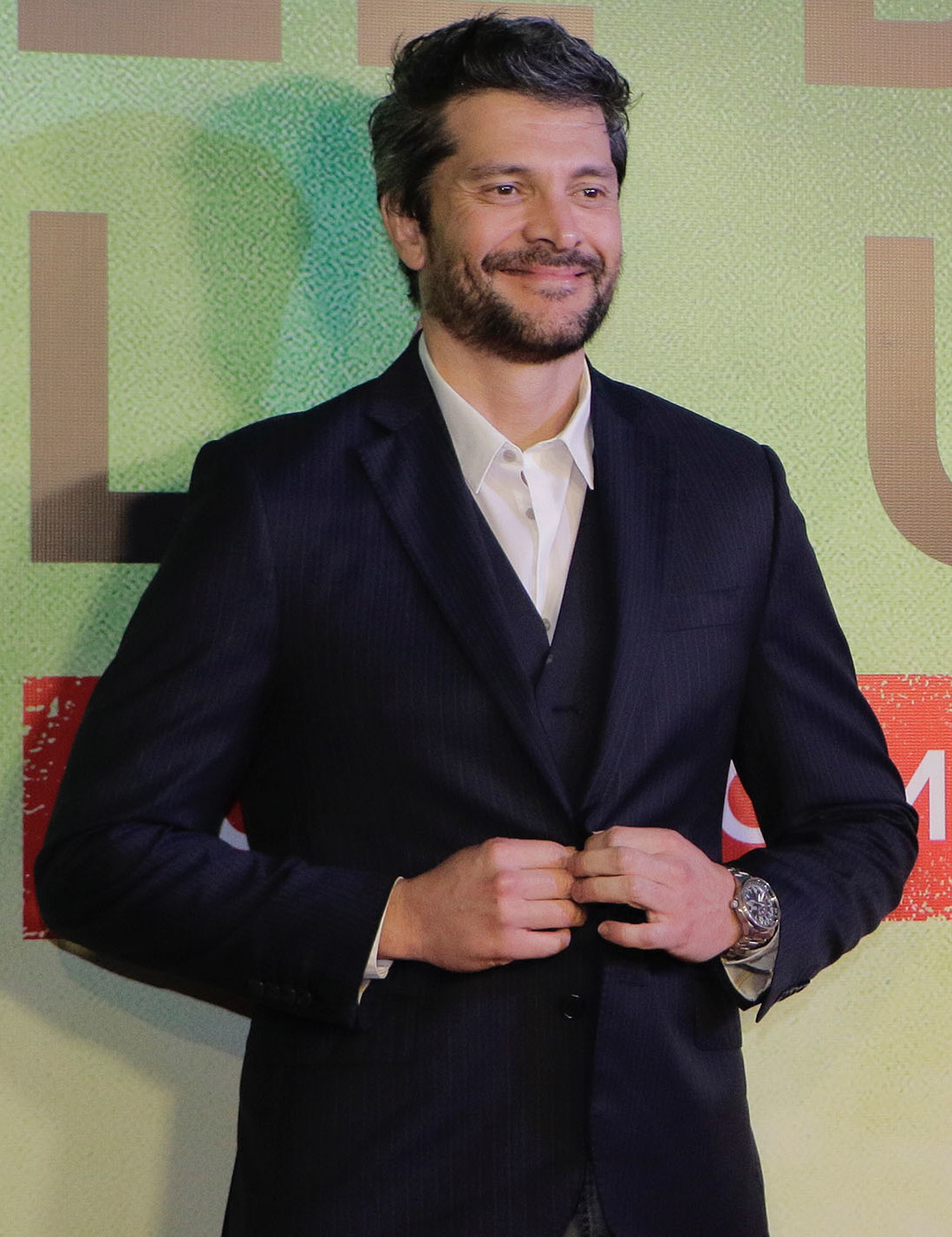 Marcelo Cordoba on the red carpet of "El dia de la union" premiere. Wednesday, September 12, 2018. Mexico City. Picture by Tania Victoria / Secretaria de Cultura CDMX.